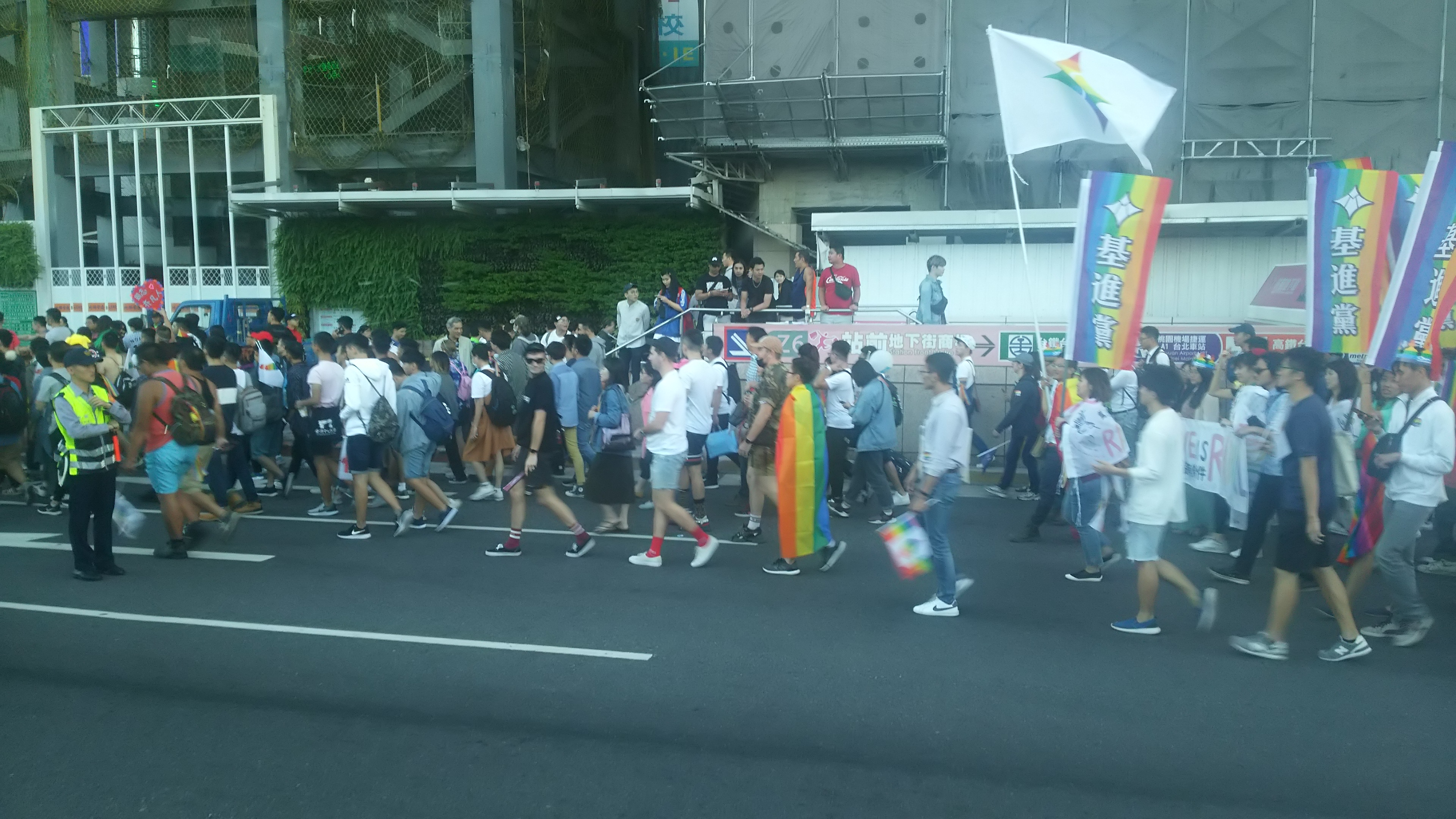 Taiwan LGBT Pride 2018, when the parade pass by Taipei Station Front Metro Mall. Photo Date: 2018-10-27 Place: Outsite of Taipei Station Front Metro Mall - Exit Z6